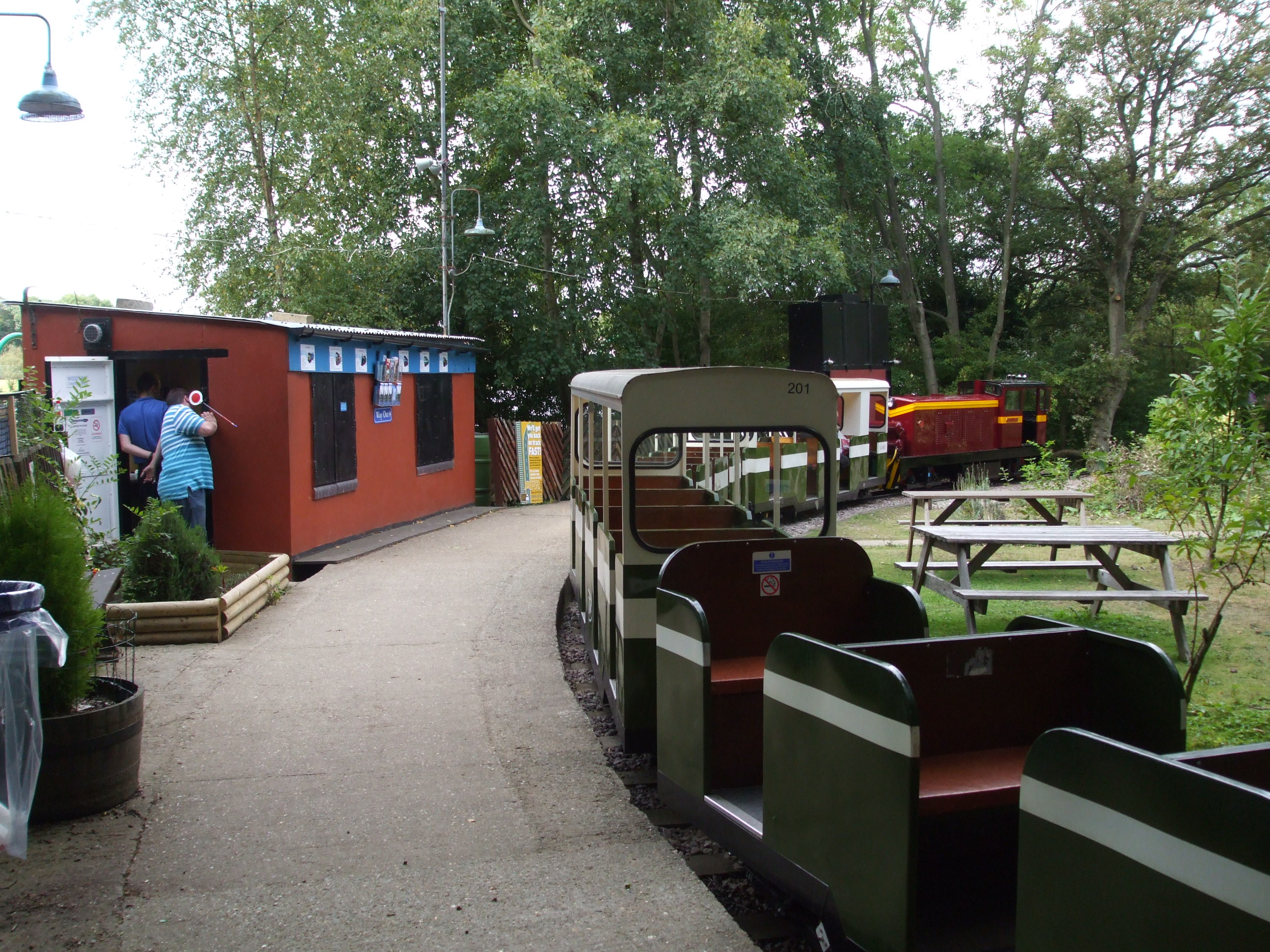 Woody Bay station platform, looking west